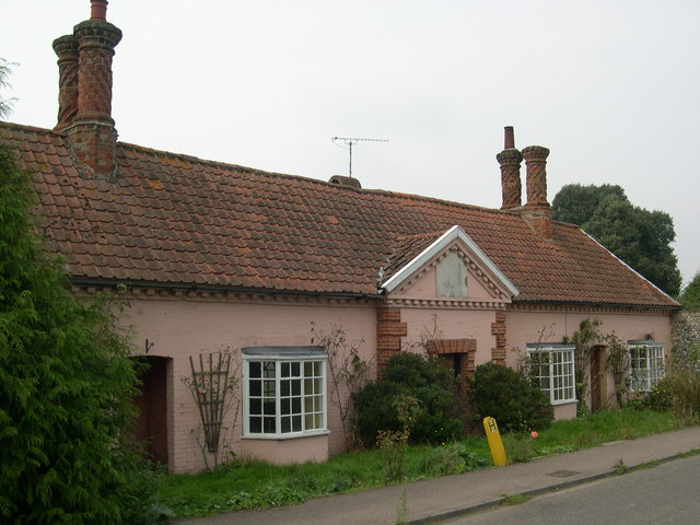 Alms Houses, Ampton, Suffolk, near to Ampton, Suffolk, Great Britain.